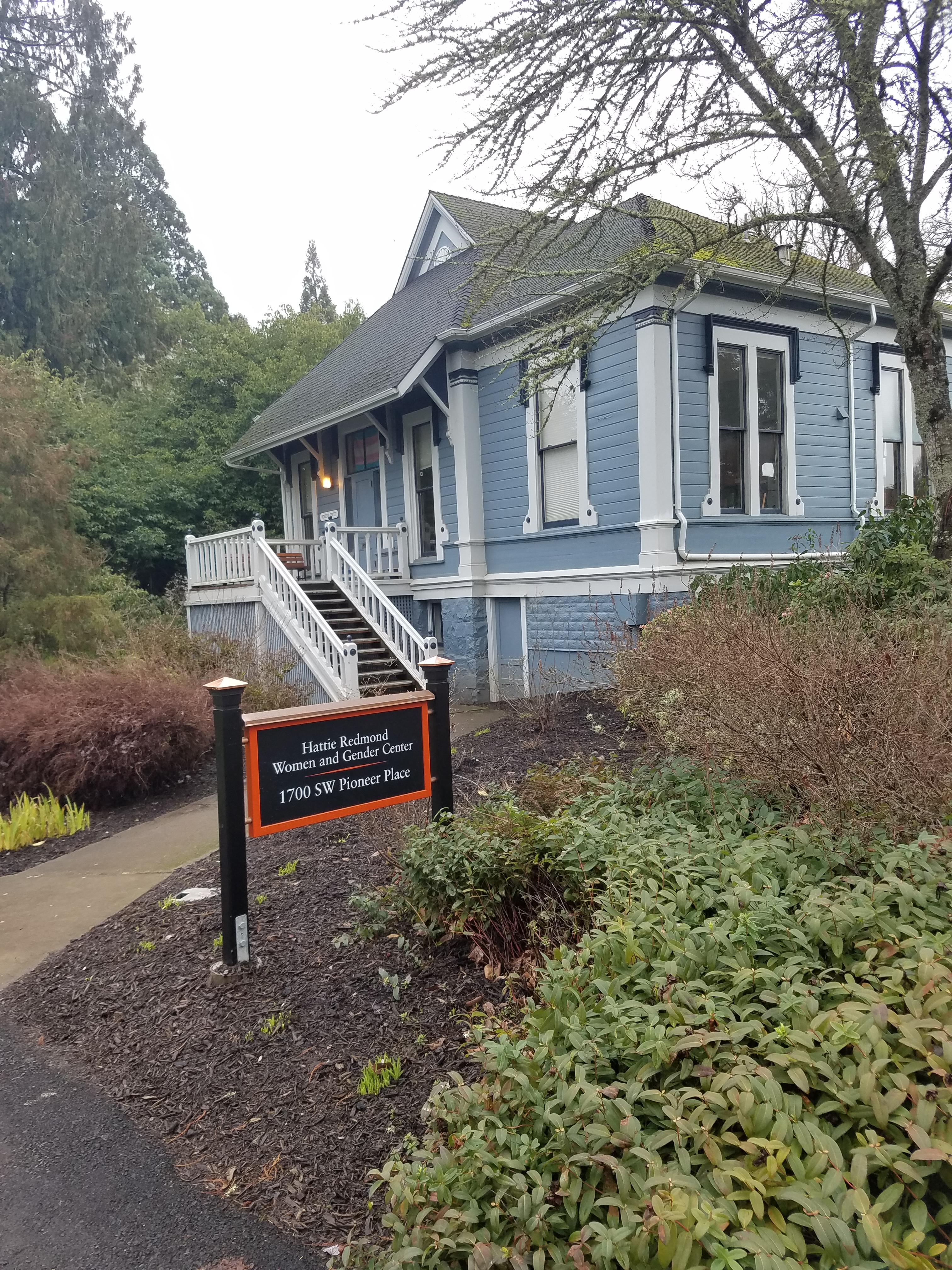 The Hattie Redmond Women and Gender Center is named for activist Hattie Redmond and is located at Oregon State University in Wilsonville, Oregon. The building was originally called the Benton Annex, but its name was changed due to the racism of the original person it was named for.